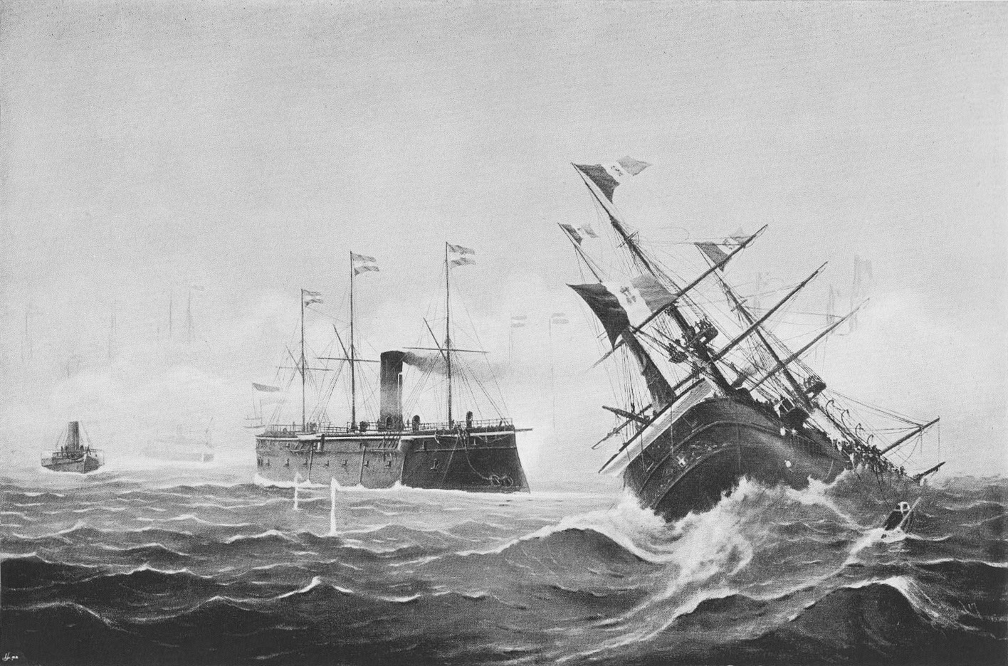 In the naval battle near Lissa in the Adriatic Sea in 1866, won by the Austrian War Fleet, the Austrian ship "Erzherzog Ferdinand Max" rammed the Italian flagship "Re d'Italia", which sank immediately. A painting by Gustav Kappler shows this historic moment. Reproduction in the "Österreichs Hort" ("Austria's Stronghold") jubilee publication of 1908 on the occasion of Emperor Franz Josef I. reigning 60 years.